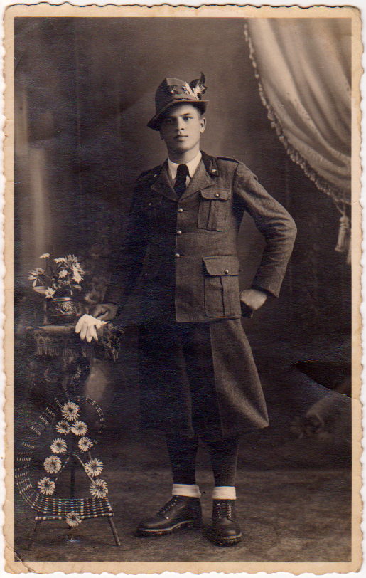 WW II Alpino Della Mora Gelindo - Portrait in Full Dress Uniform ca. 1940